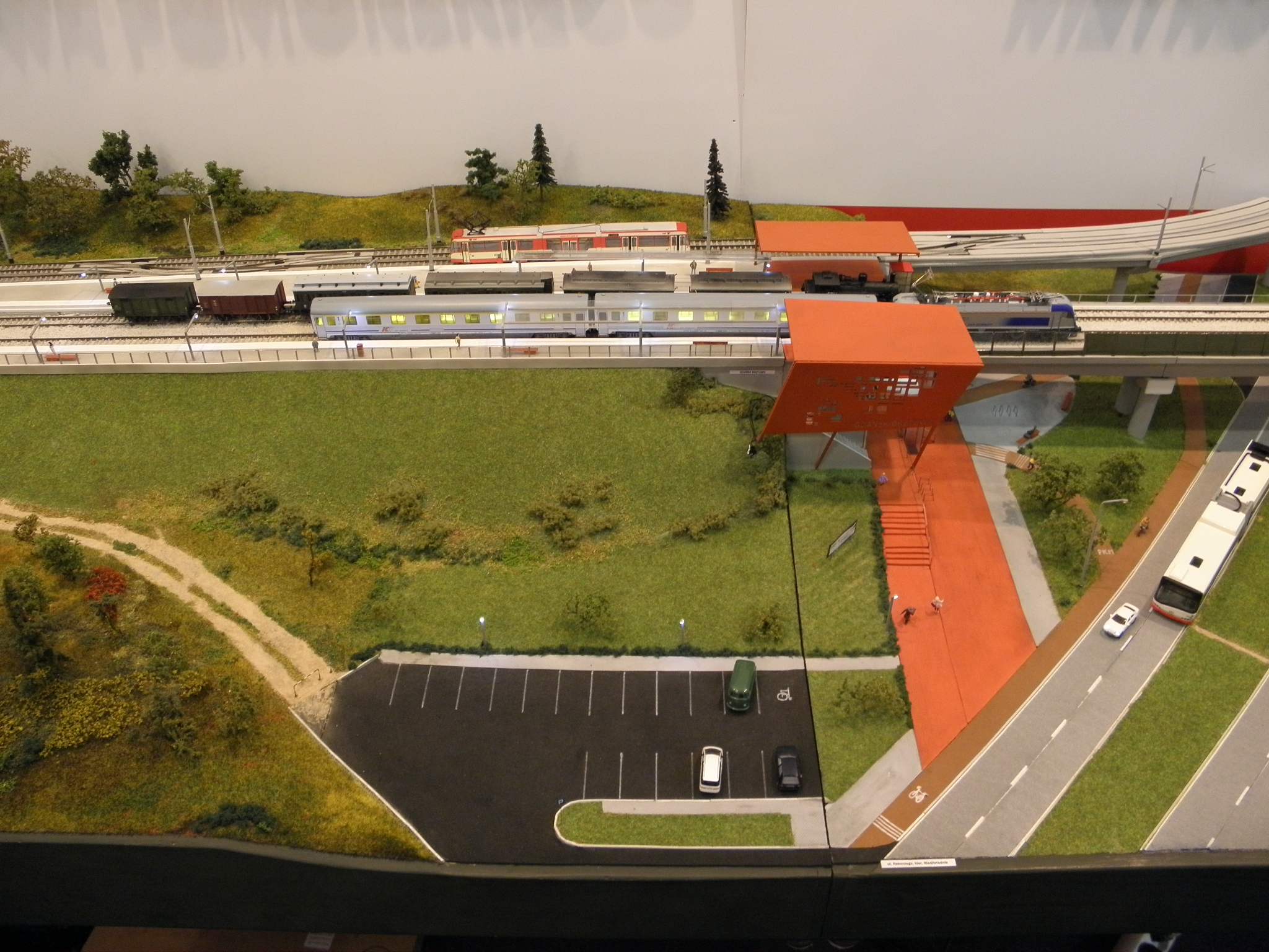 Photo from Trako 2013, Gdańsk/Danzig.